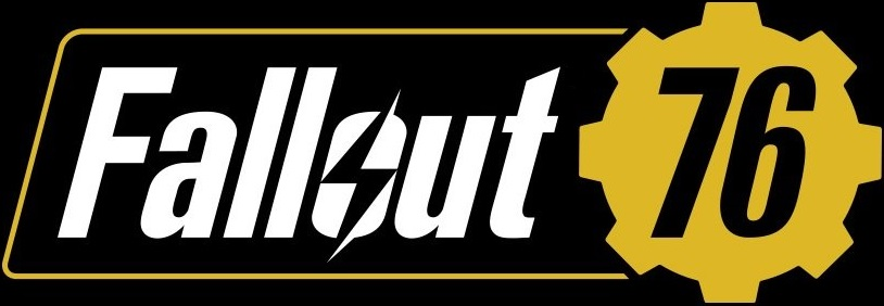 The logo of the game Fallout 76